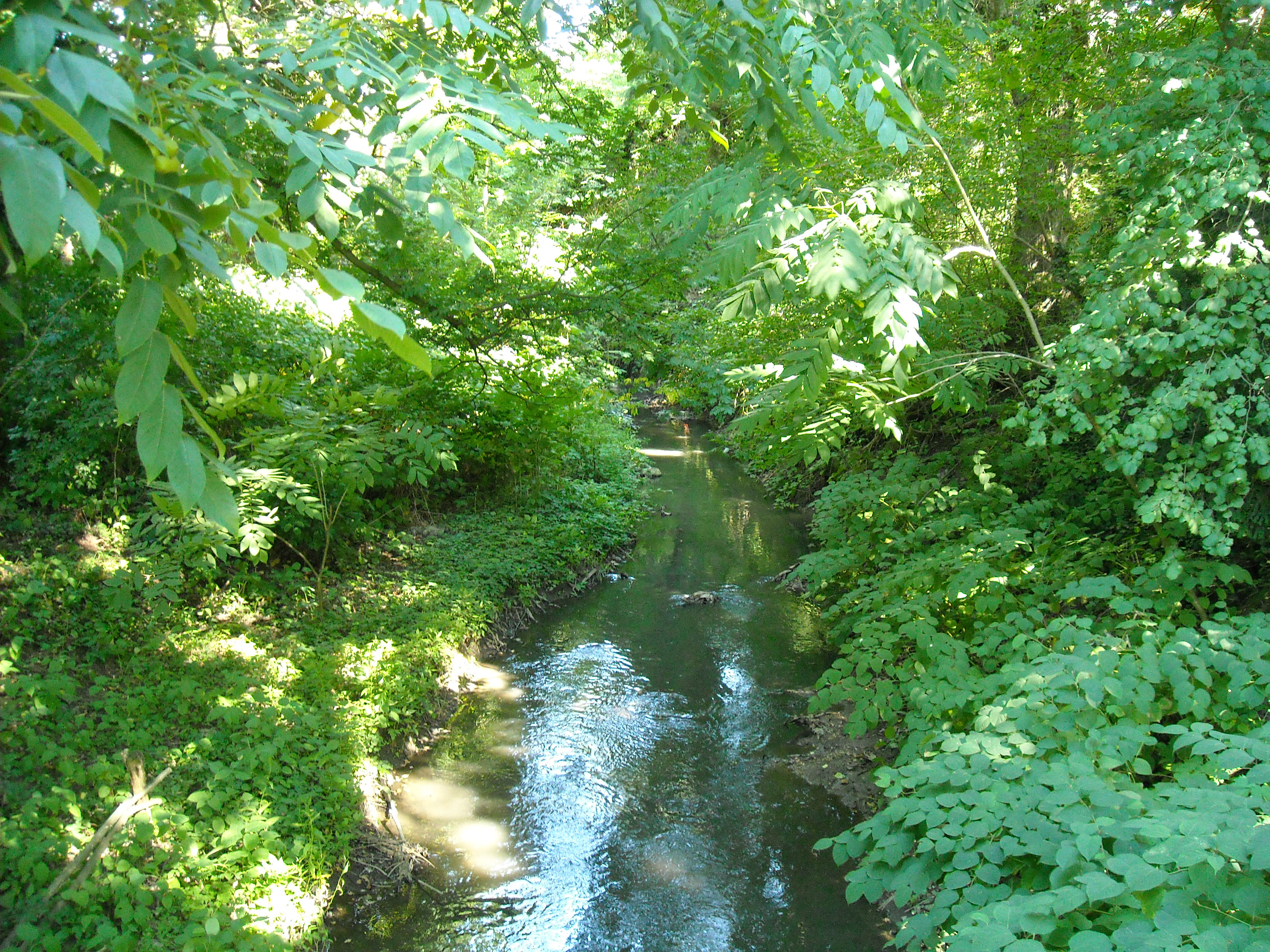 creek in the Simeria (Biscaria) arboretum